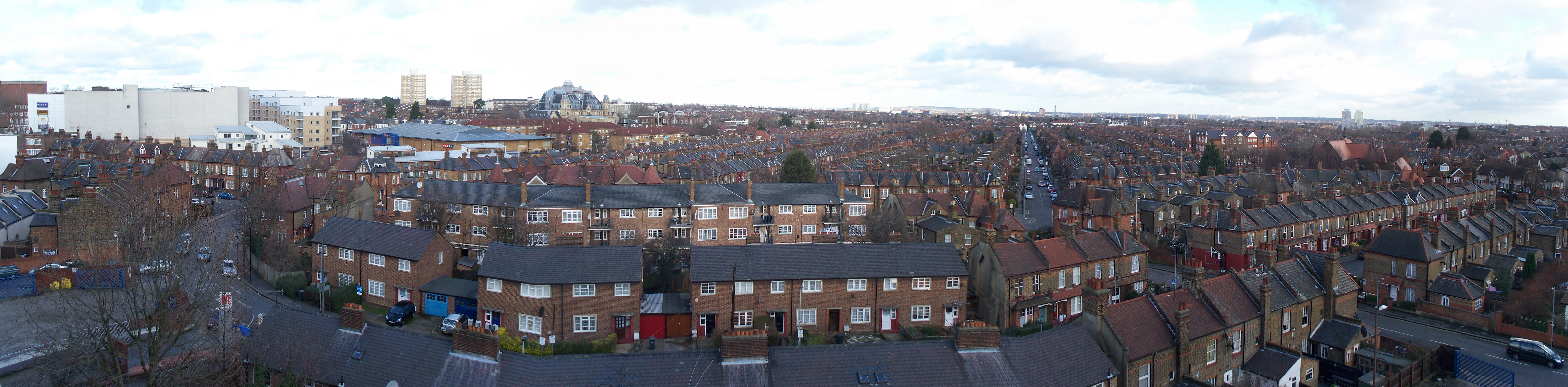 Noel Park, London N22. Photograph taken in a public location in the UK of a building on permanent public display, and exempt from copyright under Section 62 of the Copyright Designs & Patents Act 1988 ("it is not an infringement of copyright to film, photograph, broadcast or make a graphic image of a building, sculpture, models for buildings or work of artistic craftsmanship if that work is permanently situated in a public place or in premises open to the public")